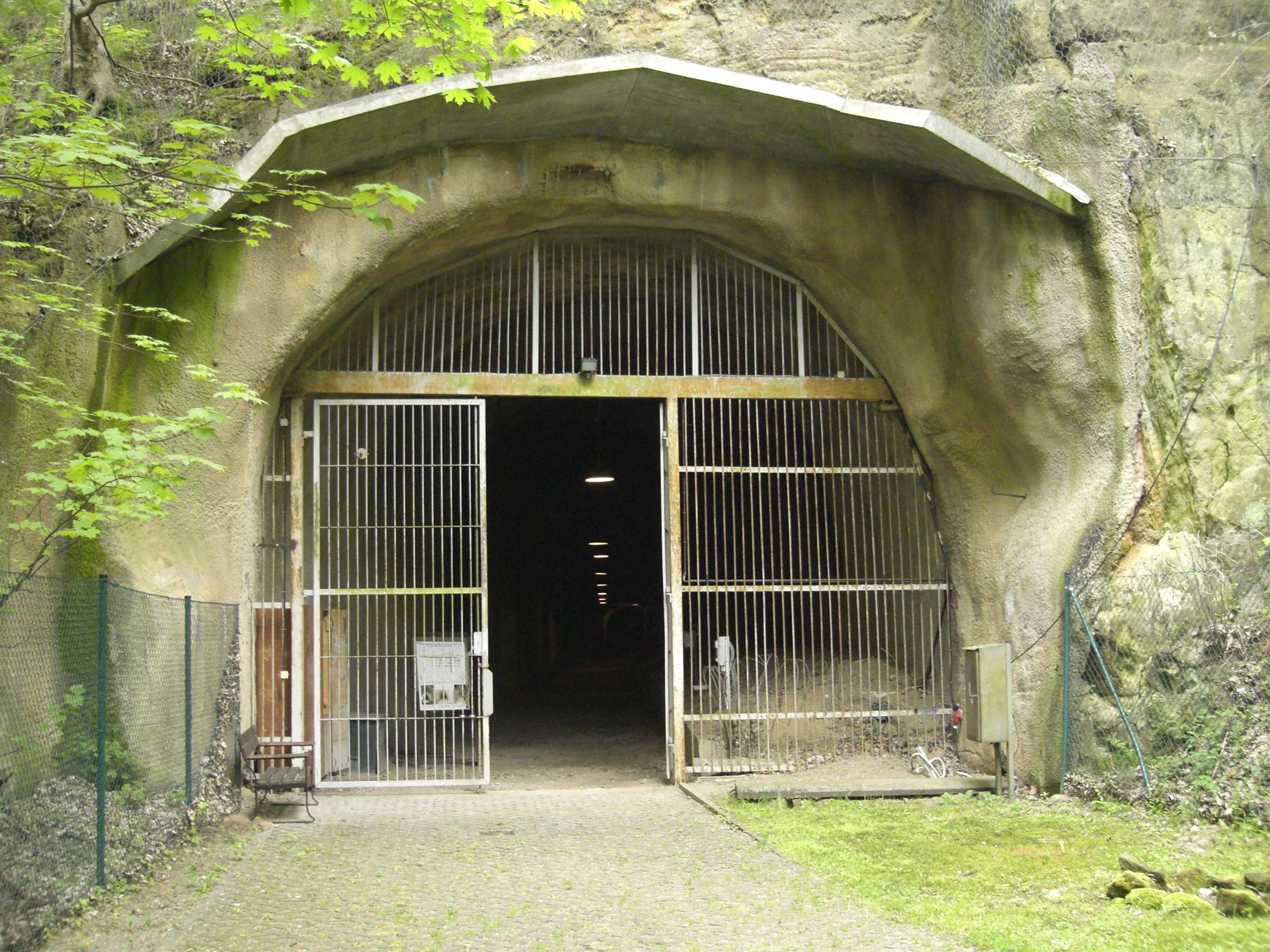 Entrance gate of the adit, memorial place of the Langenstein-Zwieberge concentration camp, Saxony-Anhalt, Germany